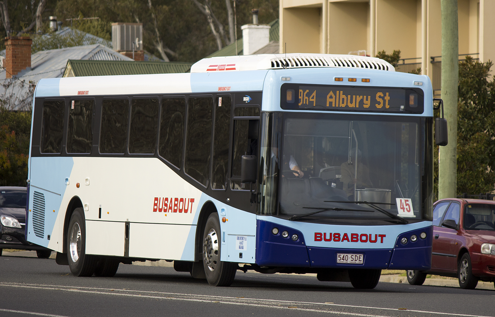 Bustech "XDi" (540 SDE, built 2012), with Cummins ISL engine, demonstrator operated by Busabout Wagga Wagga in Transport New South Wales livery.